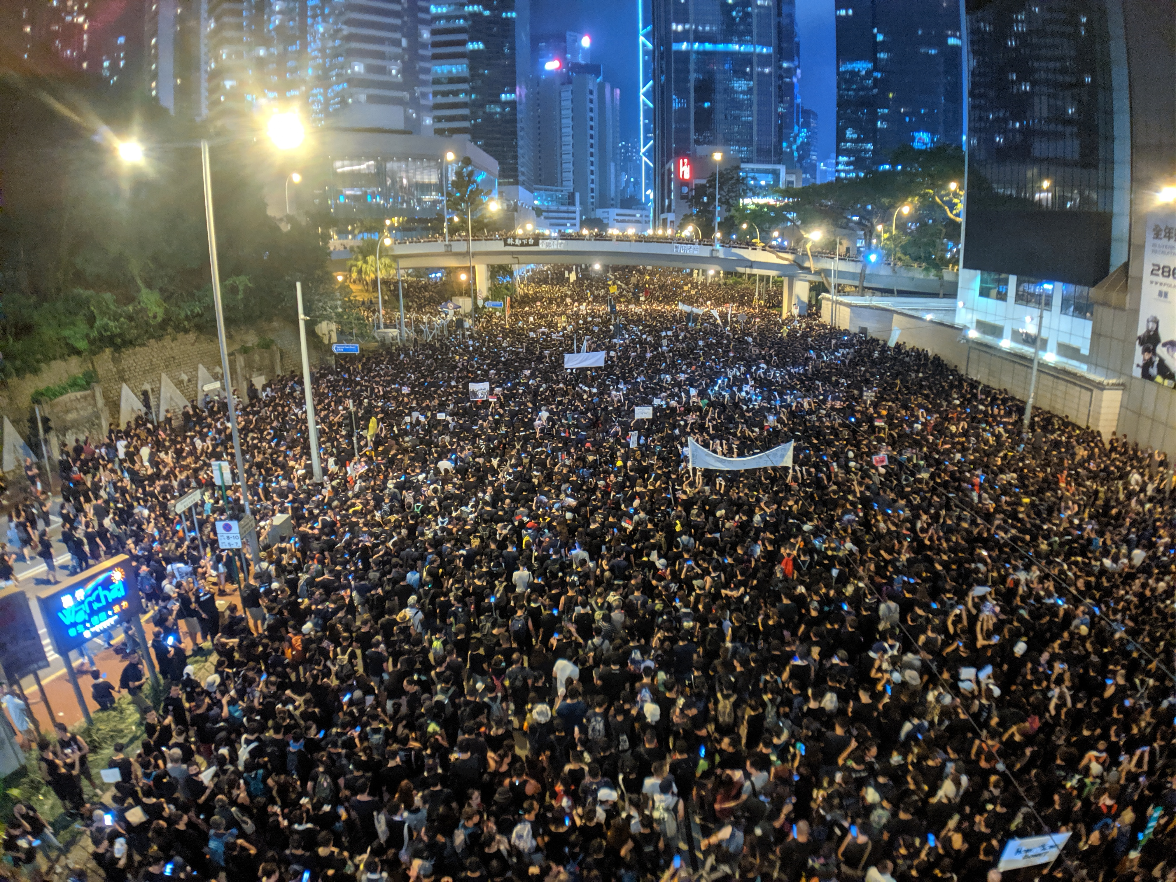 2019 Hong Kong anti-extradition law protest on 16 June, captured by Studio Incendo from Flickr.